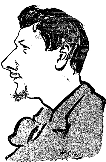 Self-portrait of French painter Henri-Gabriel Ibels (1867-1936)